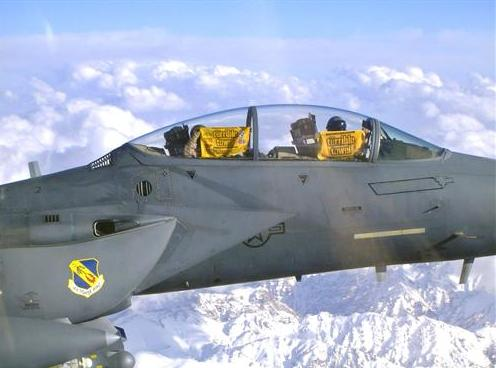 Photo of Air Force F-15E Strike Eagle pilots showing their Terrible Towels in flight in Afghanistan. The pilots are part of the 4th Fighter Wing, based at Seymour Johnson Air Force Base in Goldsboro, N.C.